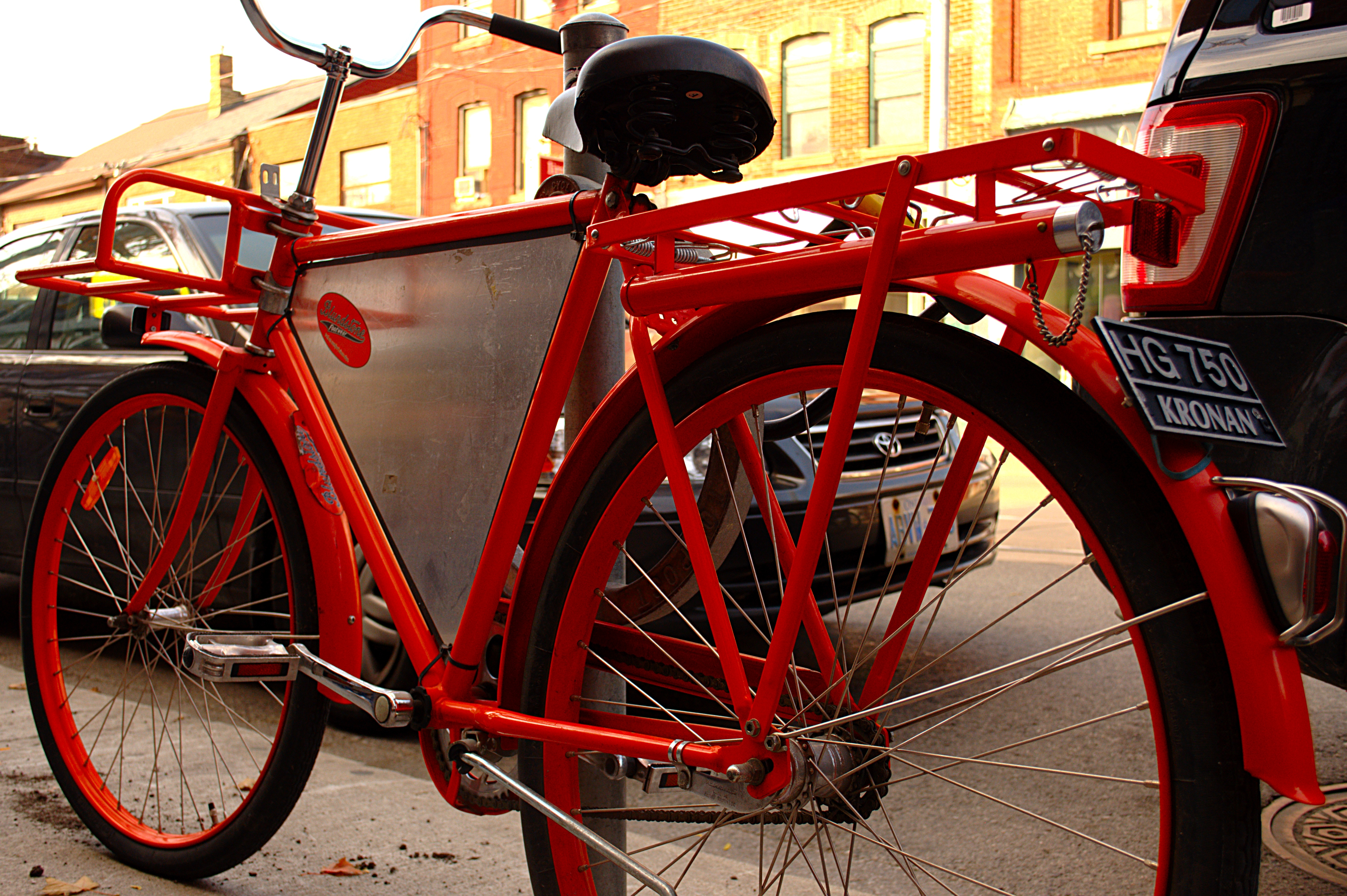 Orange Kronan in Toronto